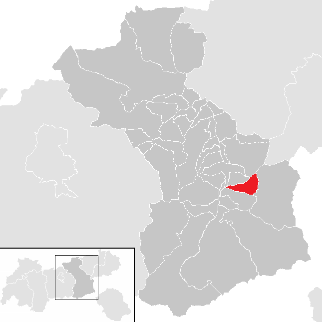 District Schwaz